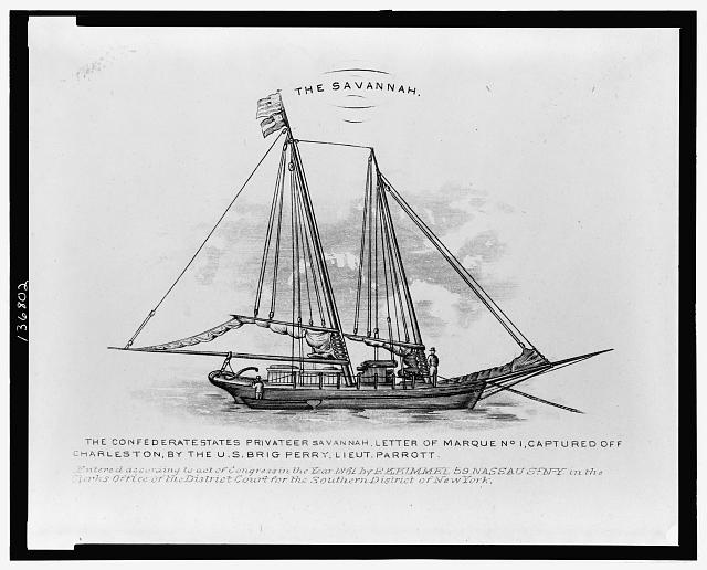 The Confederate States privateer Savannah, letter of marque No. 1, captured off Charleston, by the U. S. brig Perry, Lieut. Parrott